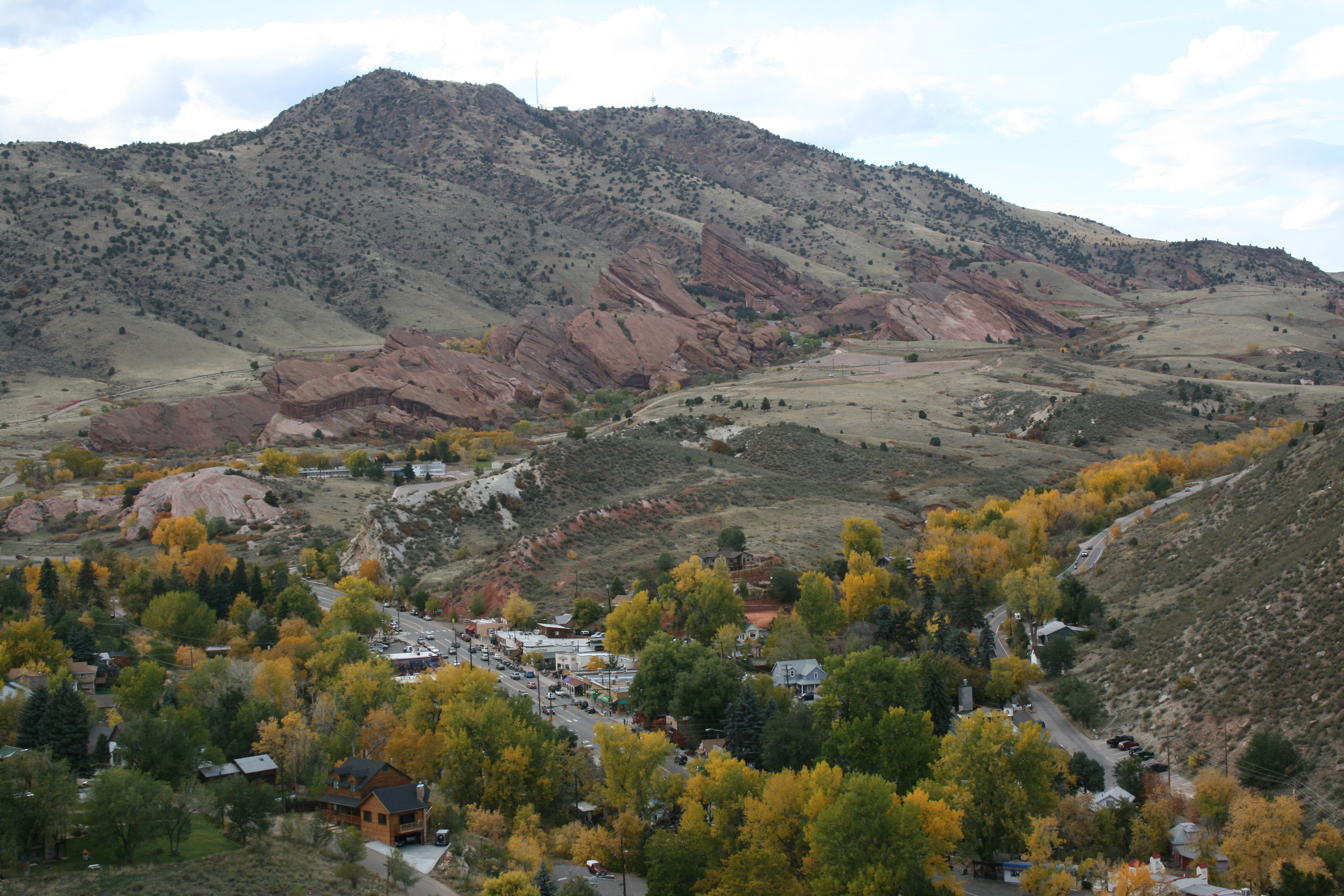 The town of Morrison in Colorada, USA.